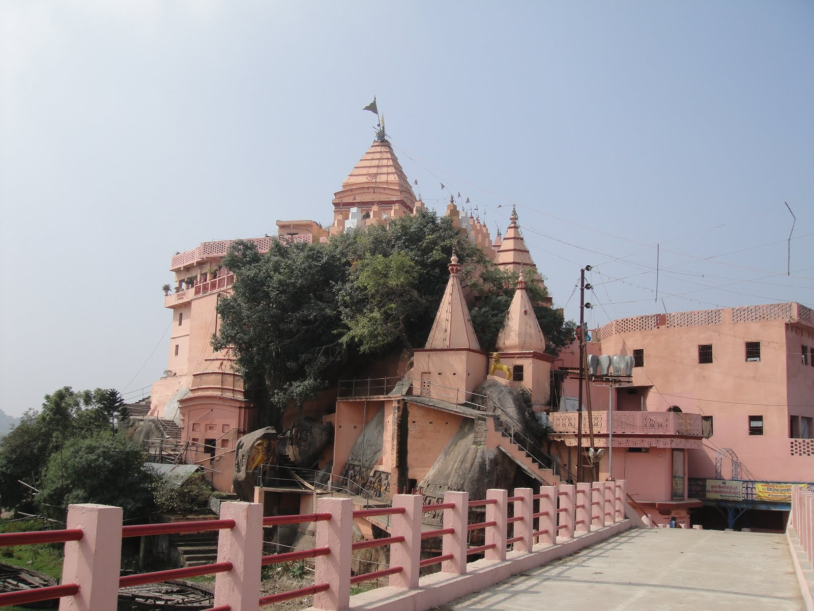 Ajgaivinath Temple is the one of the famous Indian Hindu Temple dedicated to Lord Shiva situated in Sultanganj. It is believed that the deity of the temple is Swayambhu.